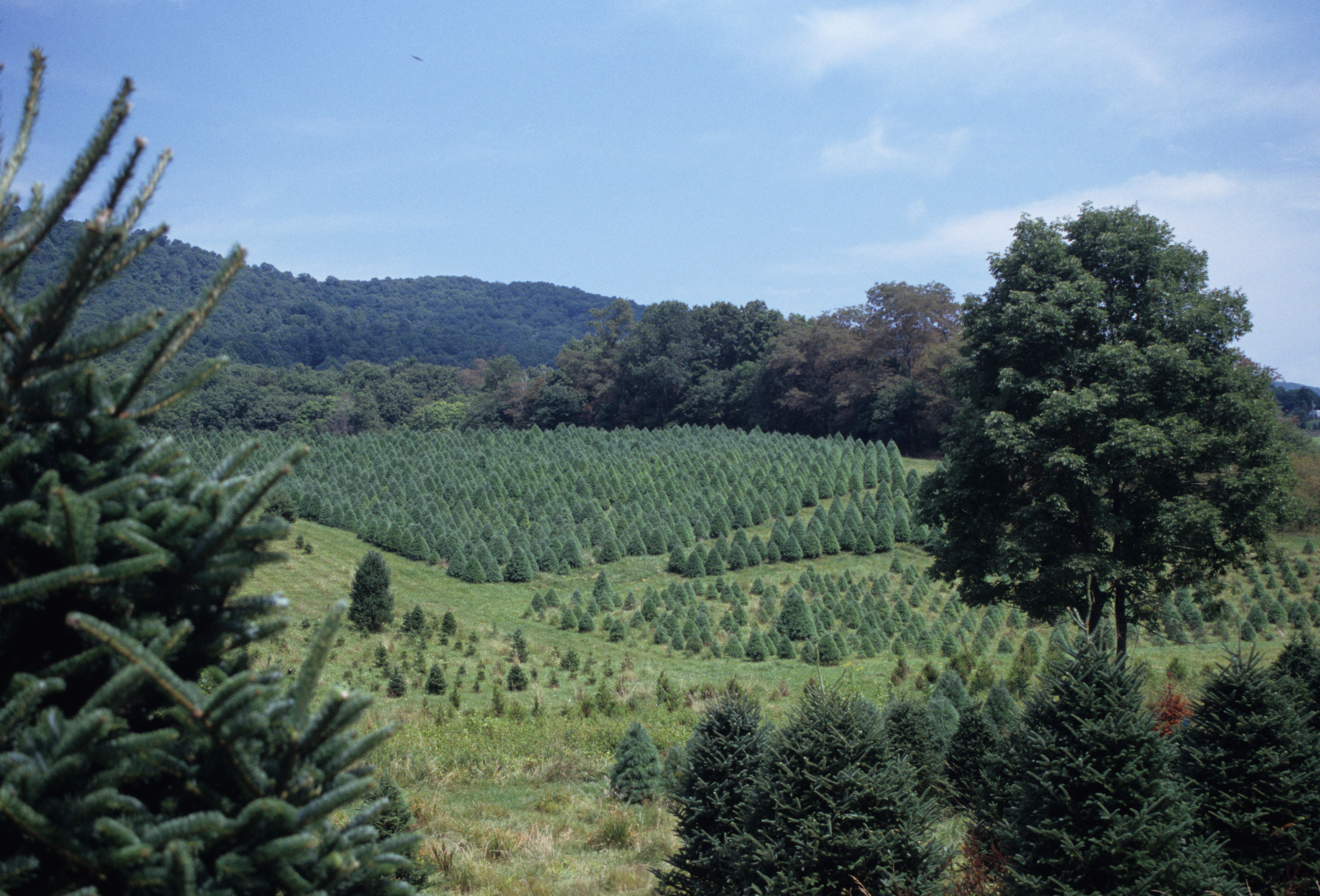 Southern Virginia farm of Christmas trees of various types.